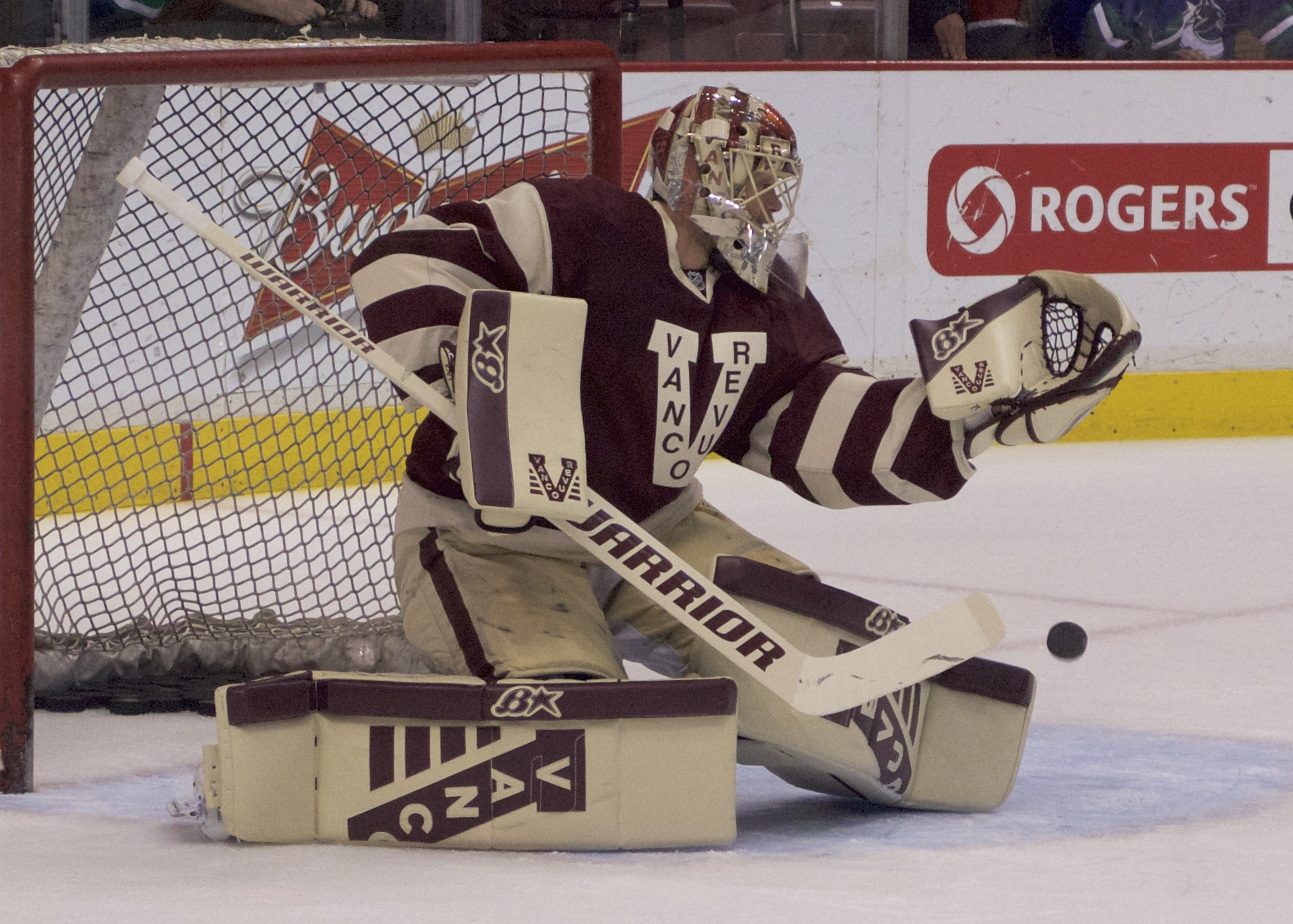 Vancouver Canucks goaltender Eddie Lack during a pre-game warm up on March 26, 2015 at Rogers Arena. The team wore Vancouver Millionaires jerseys commemorating the Millionaires' 1915 Stanley Cup victory.